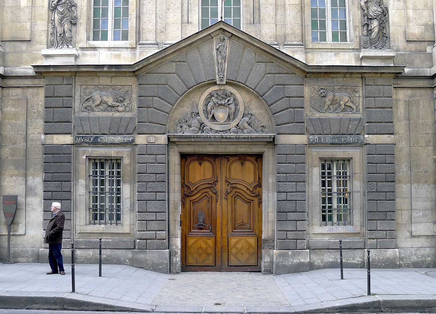 Carnavalet museum - Paris